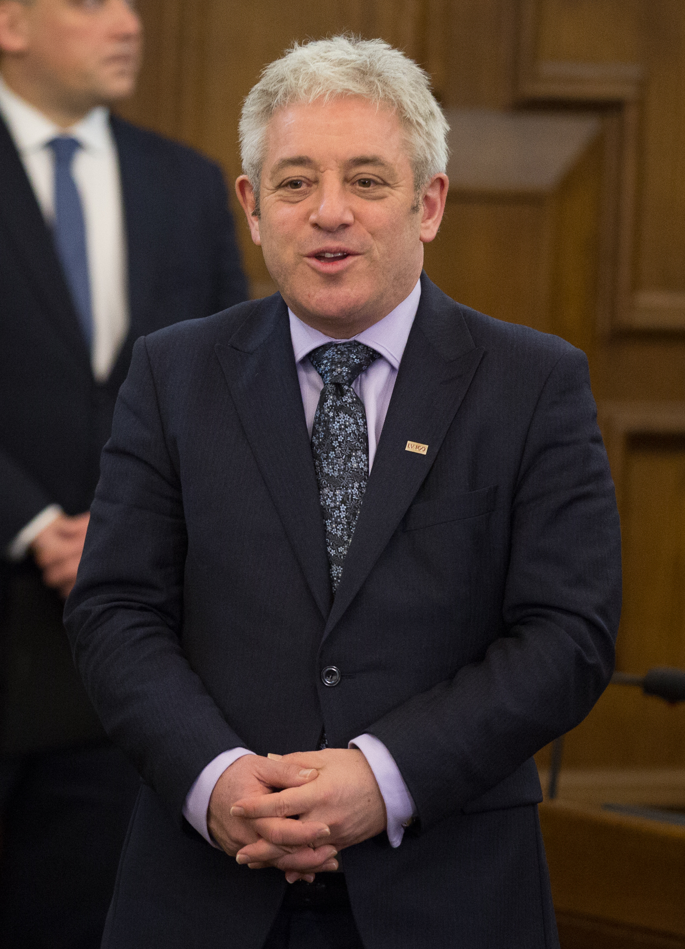 Speaker of the House of Commons of the United Kingdom of Great Britain and Northern Ireland John Bercow. Terms of use